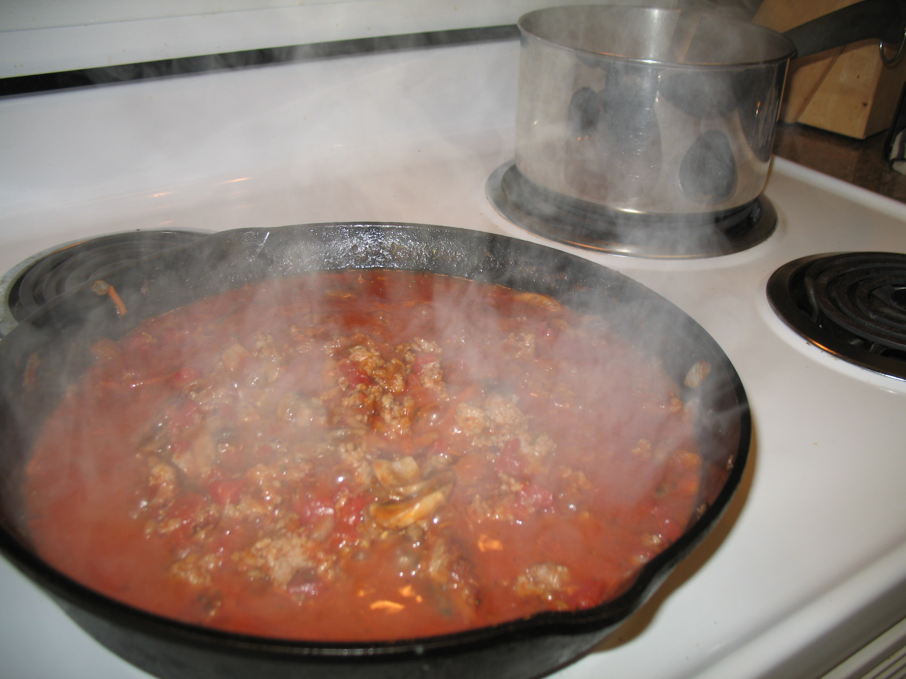 Cook 1 pound italian sausage. Don't crumble it up, just cut it up as it cooks so it's nice and chunky. Add about half an onion that's been coarsely chopped, a handful of sliced mushrooms, and a pressed clove of garlic. After the onion and mushrooms have been sautéd in the sausage grease, dump in a 28 oz can of tomatoes -- whole, diced, whatever. You may want to add another small can of tomato sauce to thin the sauce out a little. Crush some oregano and basil into the sauce. Add a teaspoon or two of sugar or a little wine or some grape juice to cut the acid taste of the tomatoes. Stew for a couple of minutes until it's perfect and serve over pasta.